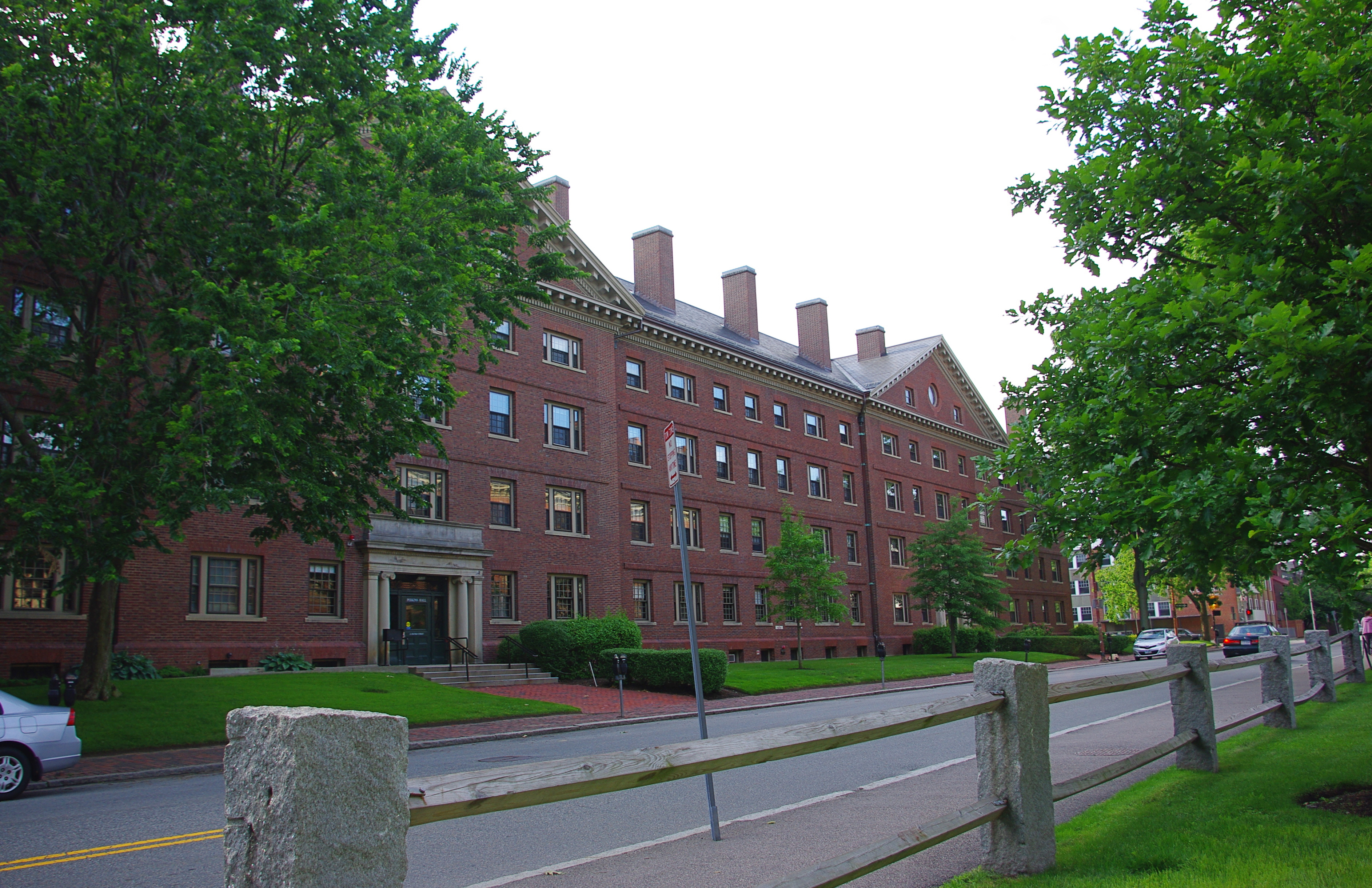 Perkins Hall, Harvard University